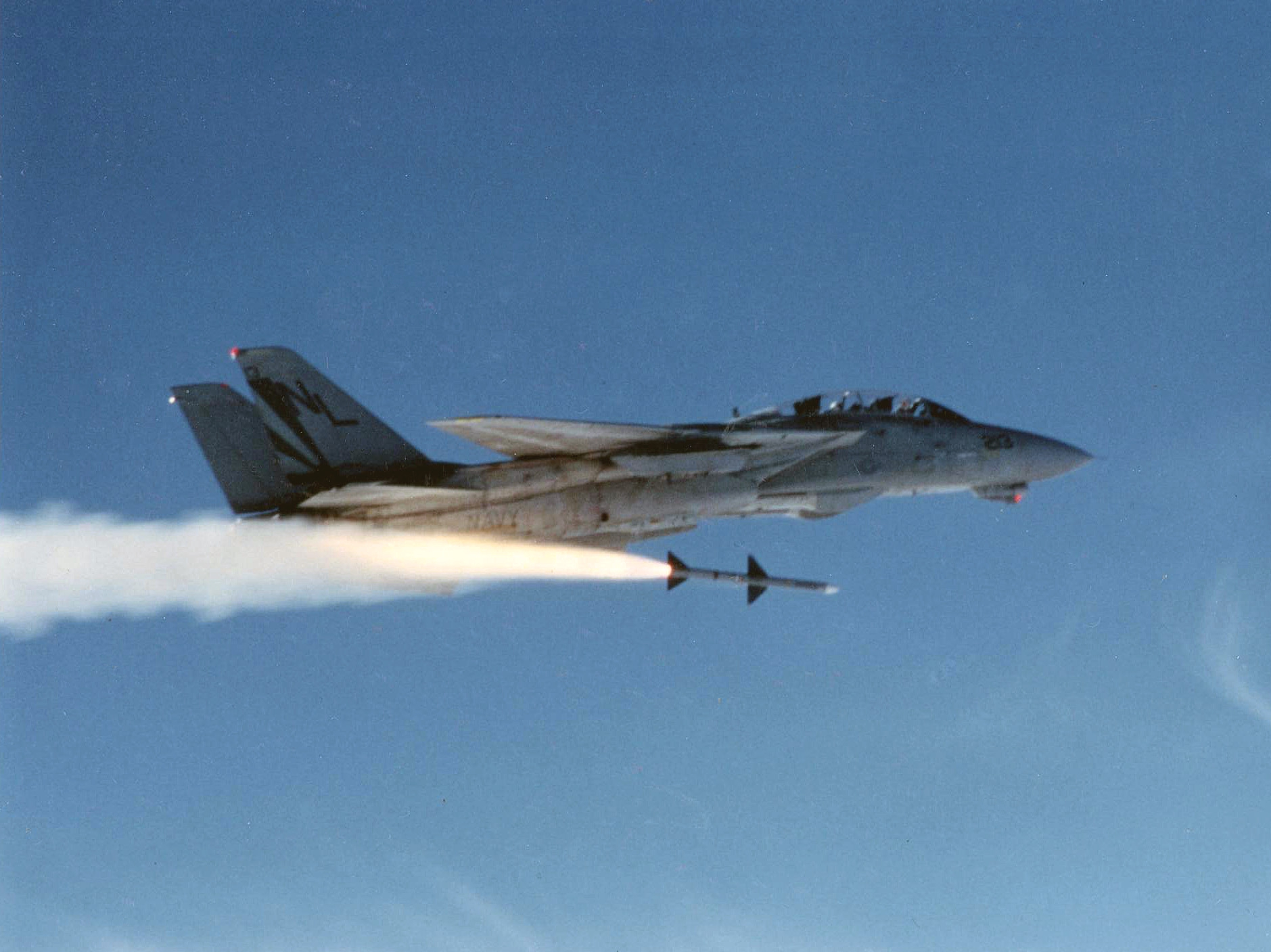 A U.S. Navy Grumman F-14A Tomcat from Fighter Squadron 111 (VF-111) "Sundowners" fires an AIM-7M Sparrow missile in February 1991. VF-111 was assigned to Carrier Air Wing 15 (CVW-15) aboard the aircraft carrier USS Kitty Hawk (CV-63) for a deployment to the Western Pacific and the Indian Ocean from 1 April to 11 December 1991.